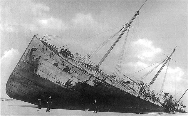 German tanker Glückauf stranded on 23/24-3-1893 in heavy fog at Blue Point Beach at Fire Island. Tourists were common at the wreck site for years after.